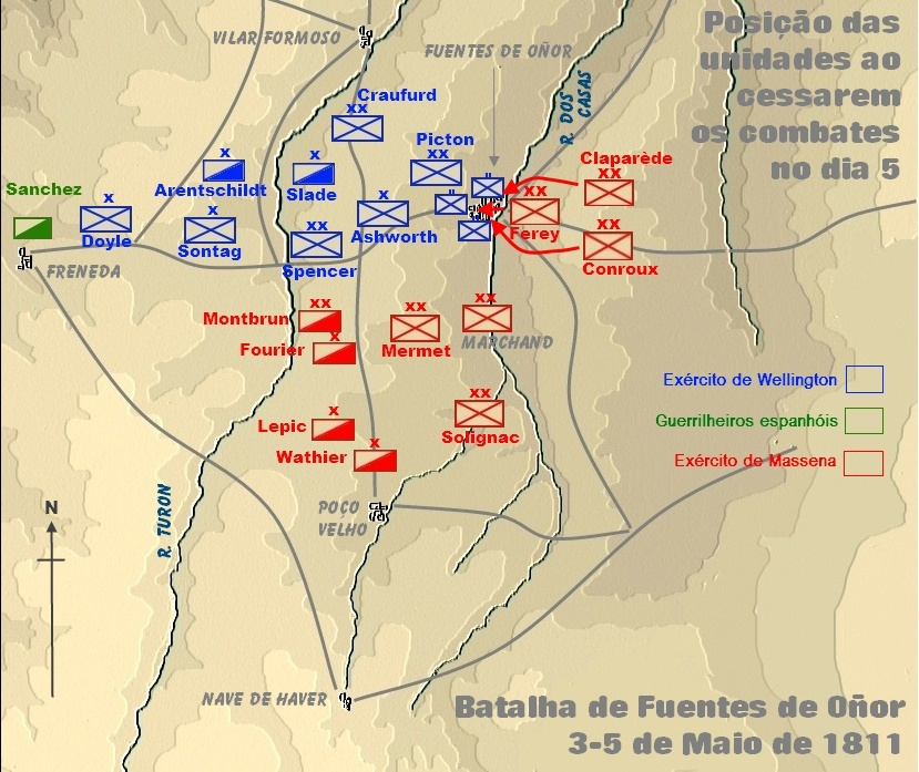 Map depicting the device of Anglo-luso and French on May 5 when the fighting stopped at the Battle of Fuentes de Onoro.